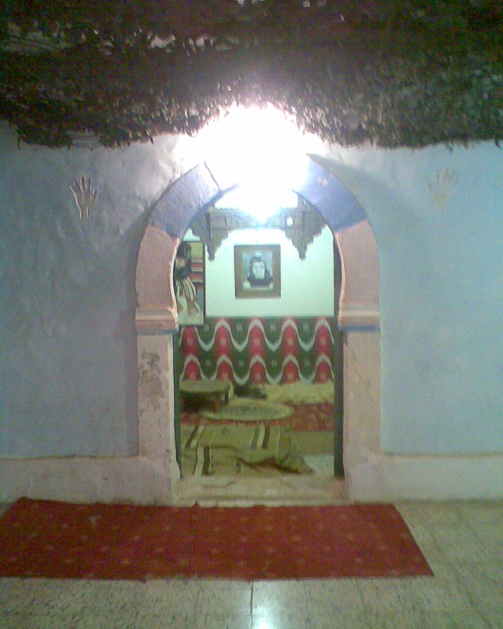 A section of Al Haila' antiquities association, Derna, Libya.